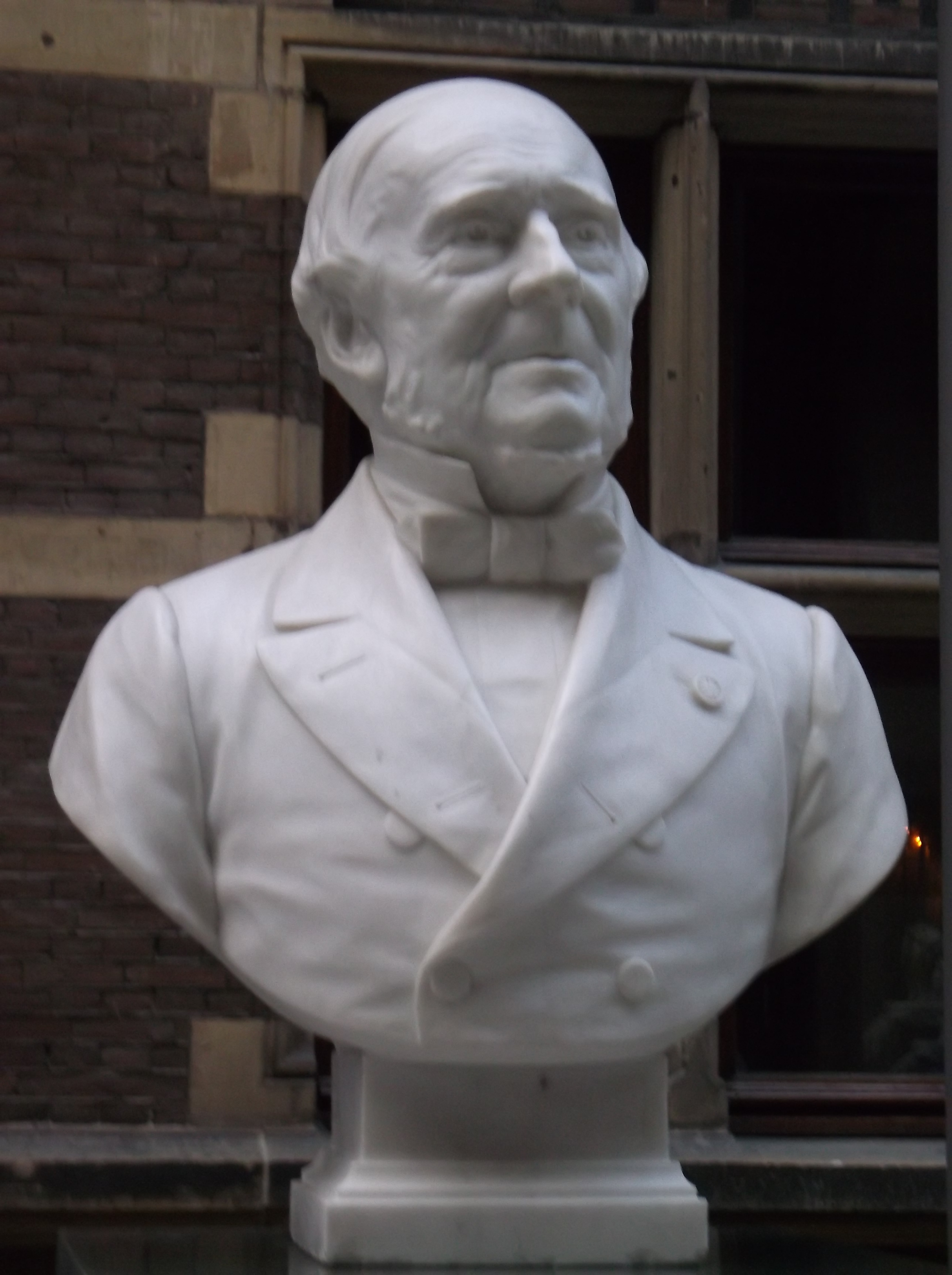 Buste in the Statenpassage in the building of the Dutch lower house.